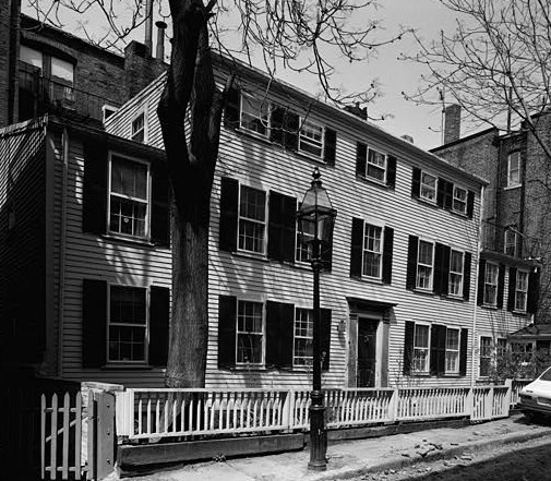 William C. Nell House, 3 Smith Court, Boston (Suffolk County, Massachusetts)) (cropped)